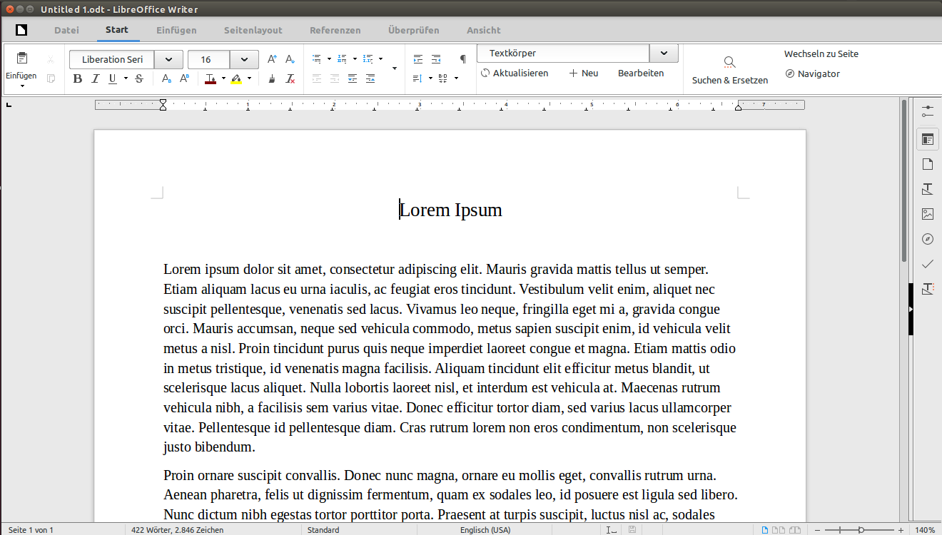 Libreoffice writer 5.3 with MUFFIN interface under Ubuntu 16.04